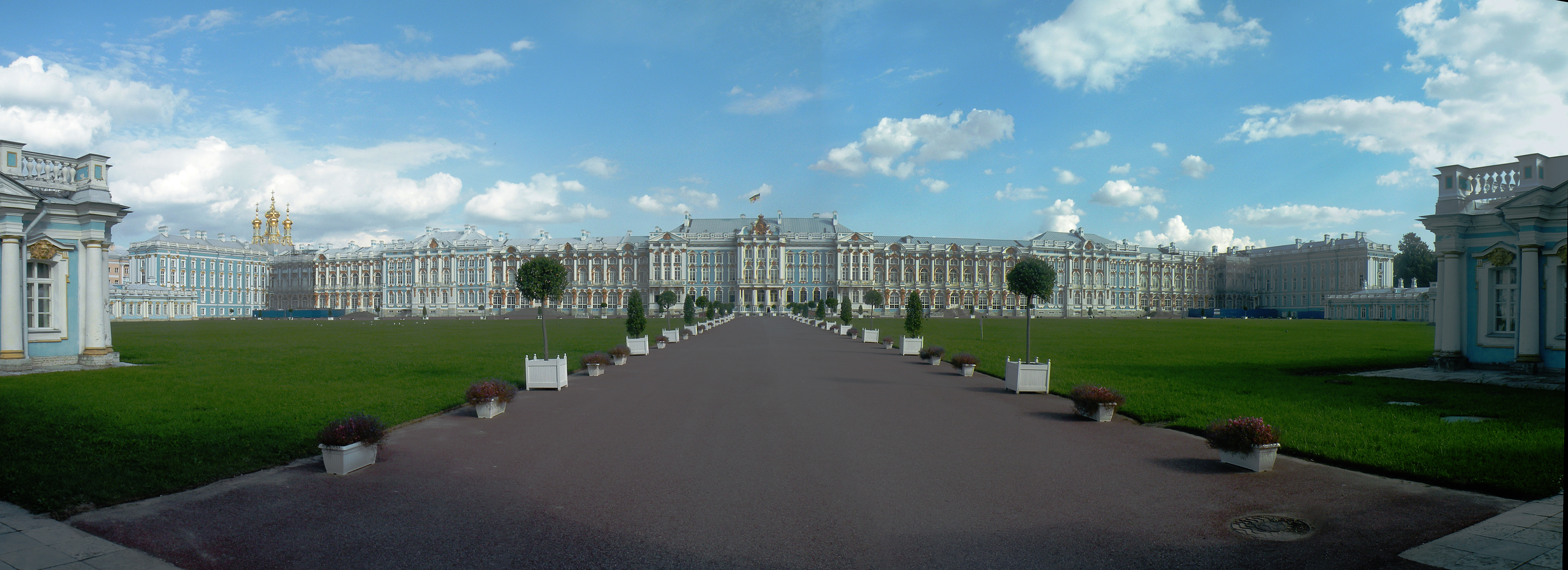 Catherine palace